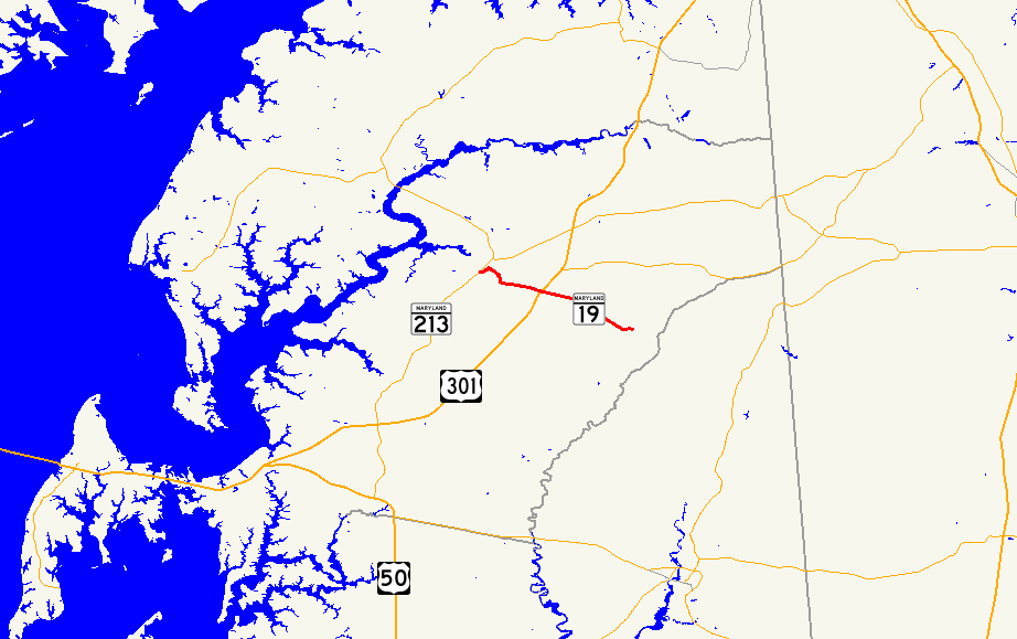 Map of Maryland Route 19